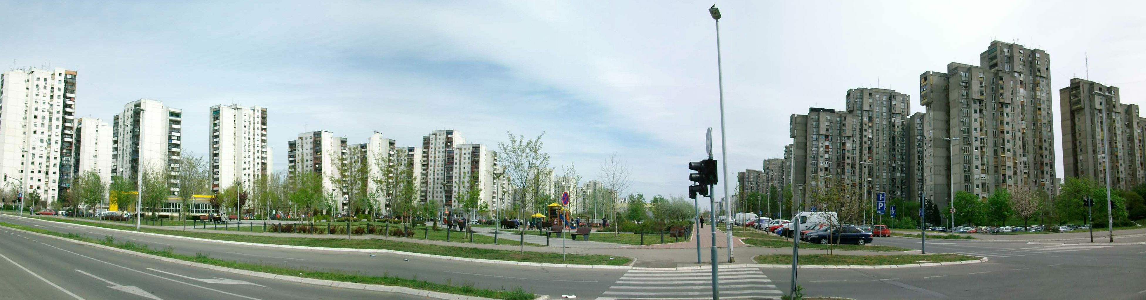 Panoramic view of block 62